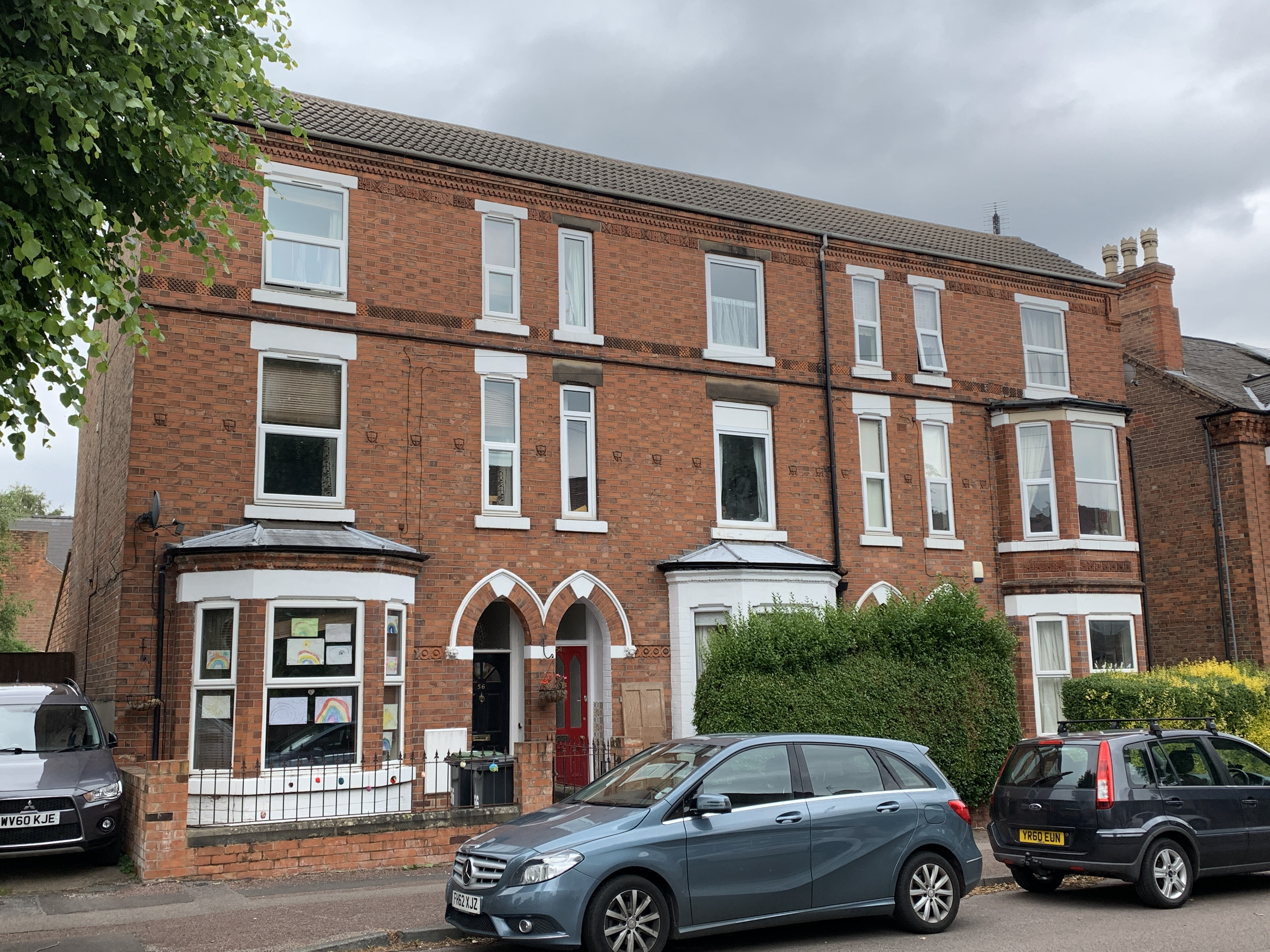 Three houses by John Bowley 1910